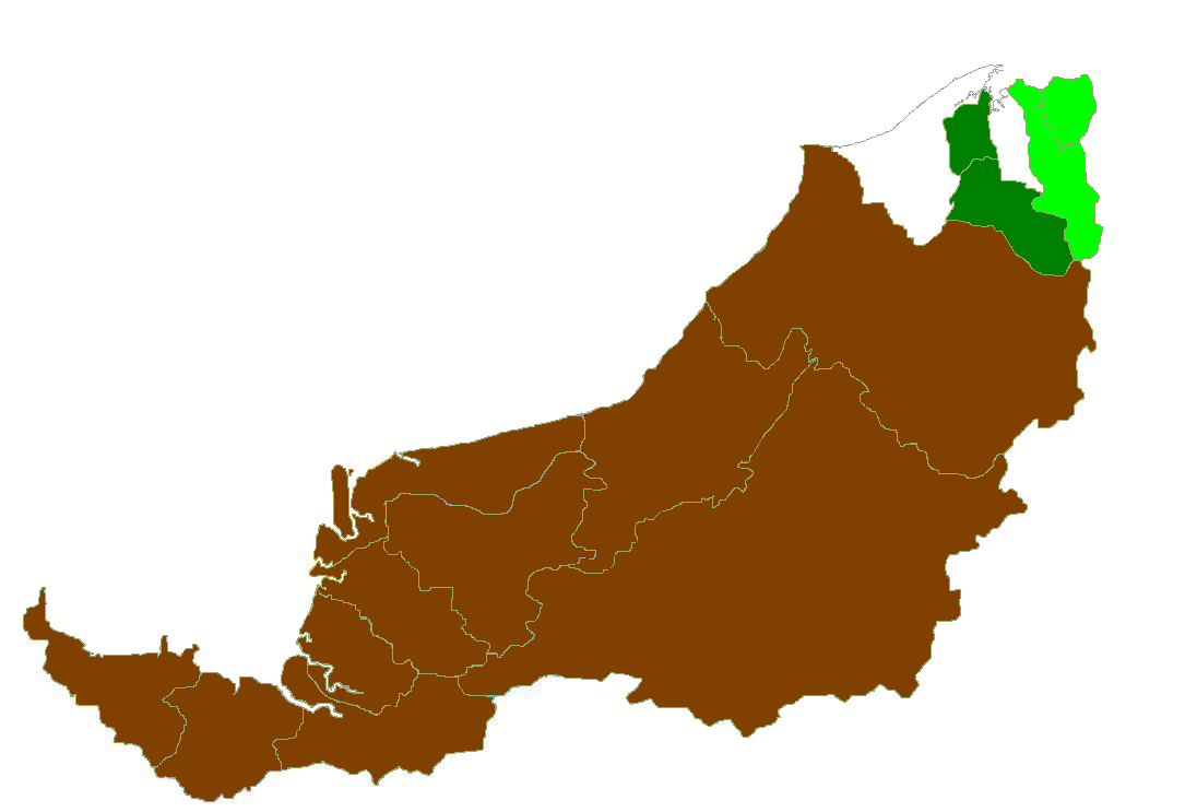 Map of Lawas.